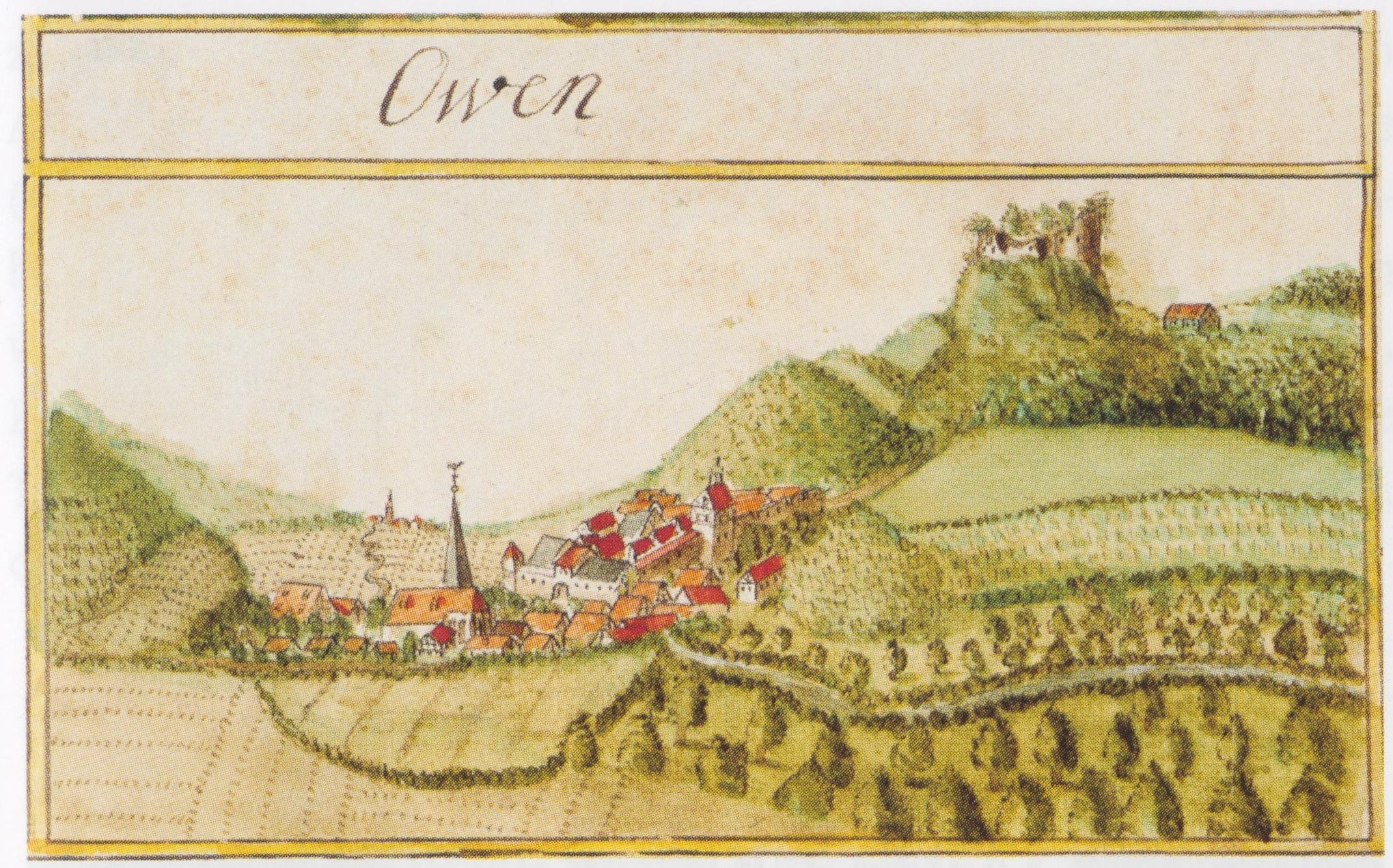 Old map of Owen, Baden-Württemberg, Germany.